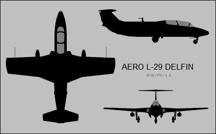 3-view silhouettes of the Aero L-29 Delfin